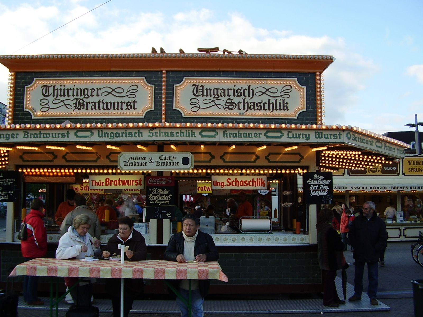 Hungaian shashlik (beef meat)